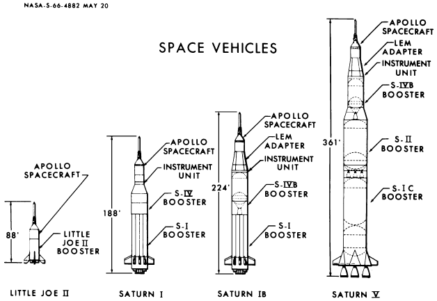 NASA drawing, to scale, of Little Joe II and three Saturn rockets, for Apollo.